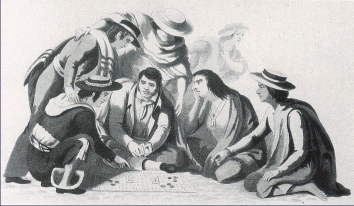 The game of monte in the streets of Mexico from the book Costumes civils, militaires et réligieux du Mexique (Belgium, 1828)